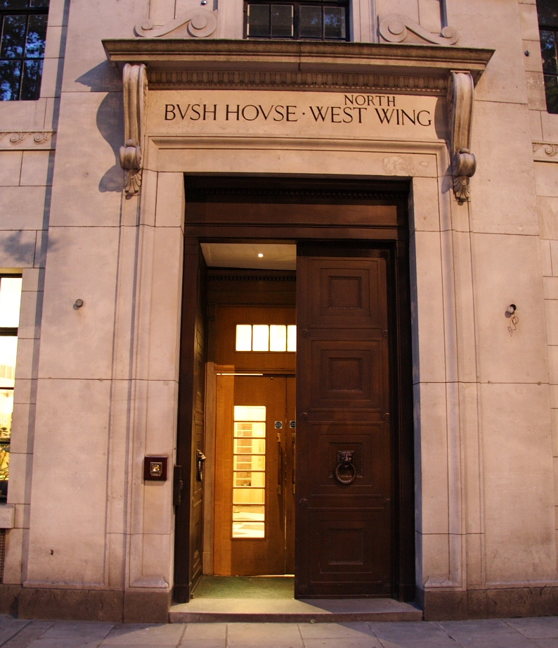 Cropped version of File Bush House NW.jpg